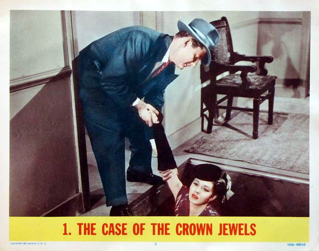 Poster for the first installment of the American film serial Federal Operator 99 (1945).